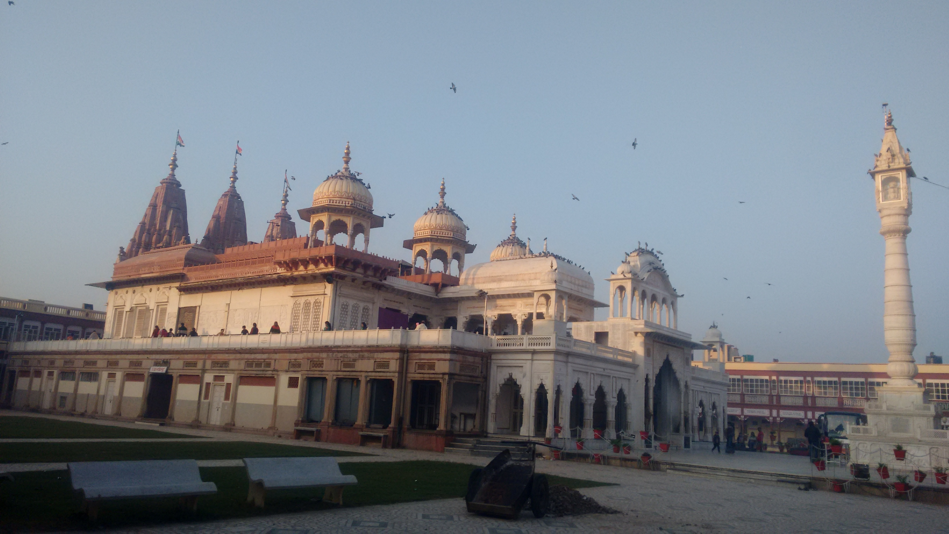 Left view of Main Temple in Shri Mahavirji Jain Temple